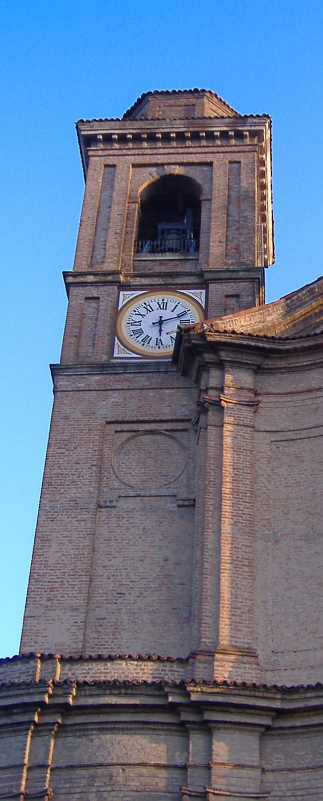 The clock tower of Santo Stefano Lodigiano, Italy